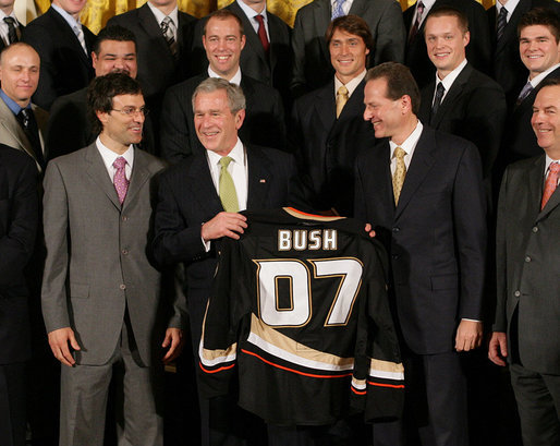 Receiving a jersey from team captain Scott Neidermayer, President George W. Bush welcomes the Anaheim Ducks, winners of the NHL's 2007 Stanley Cup Championship.